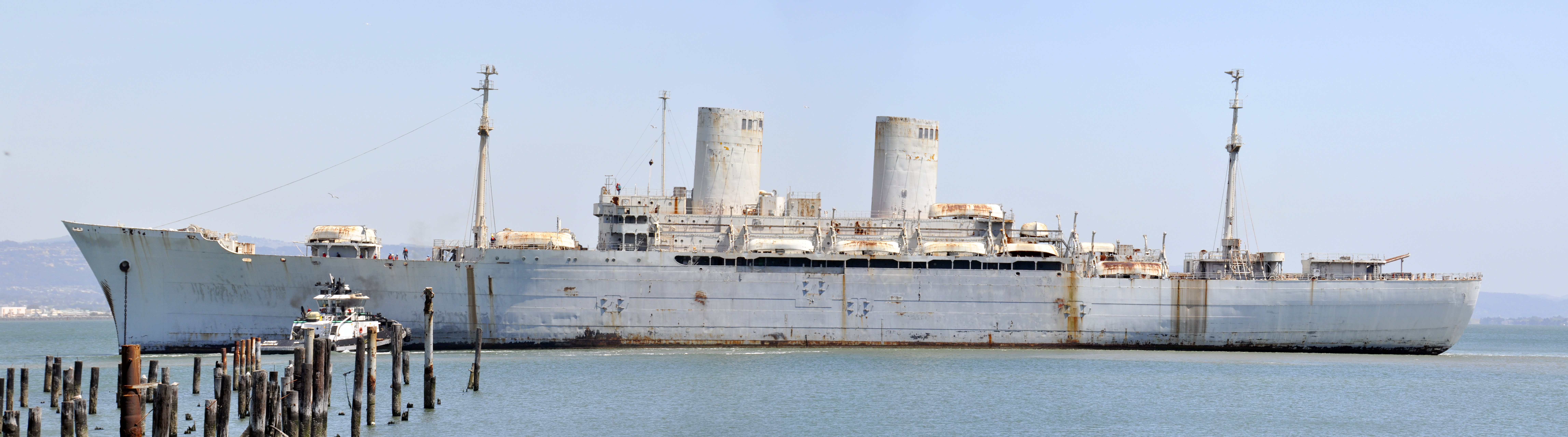 The decommissioned U.S. Navy troop transport USS General John Pope (AP-110) on 5 May 2010. After resting nearly forty years at anchor in Suisun Bay, California (USA), she was towed to Pier 70 dry dock for hull cleaning at BAE Shipyards, in San Francisco Bay. On 18 May 2010, the last surviving P2-S2-R2 U.S. Navy type departed San Francisco Bay for her final voyage to Texas for scrapping.